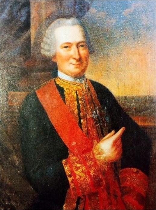 Portrait of Louis Guillouet d'Orvilliers (1710-1792)